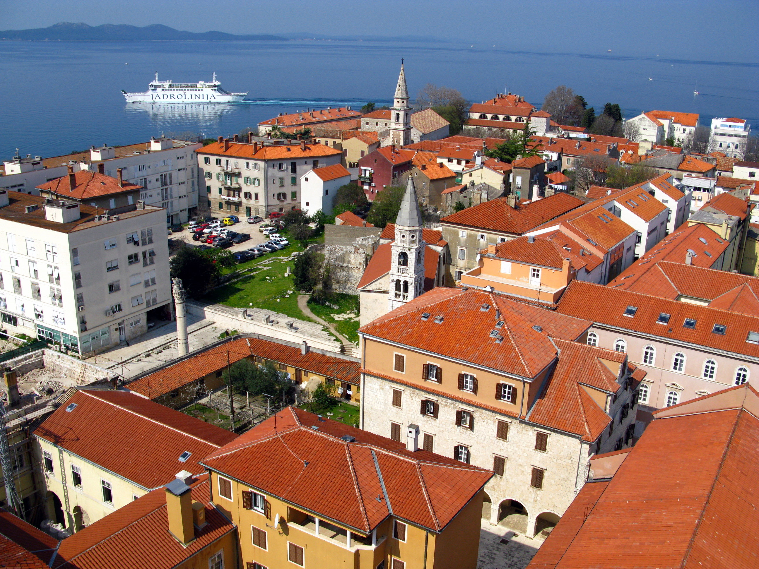 View from tower of cathedral of St. Anastasia in Zadar in Zadar / Croatia / Adriatic Sea. In the foreground, the red roofs of the old town. A Jadrolinija ferry leaves port.